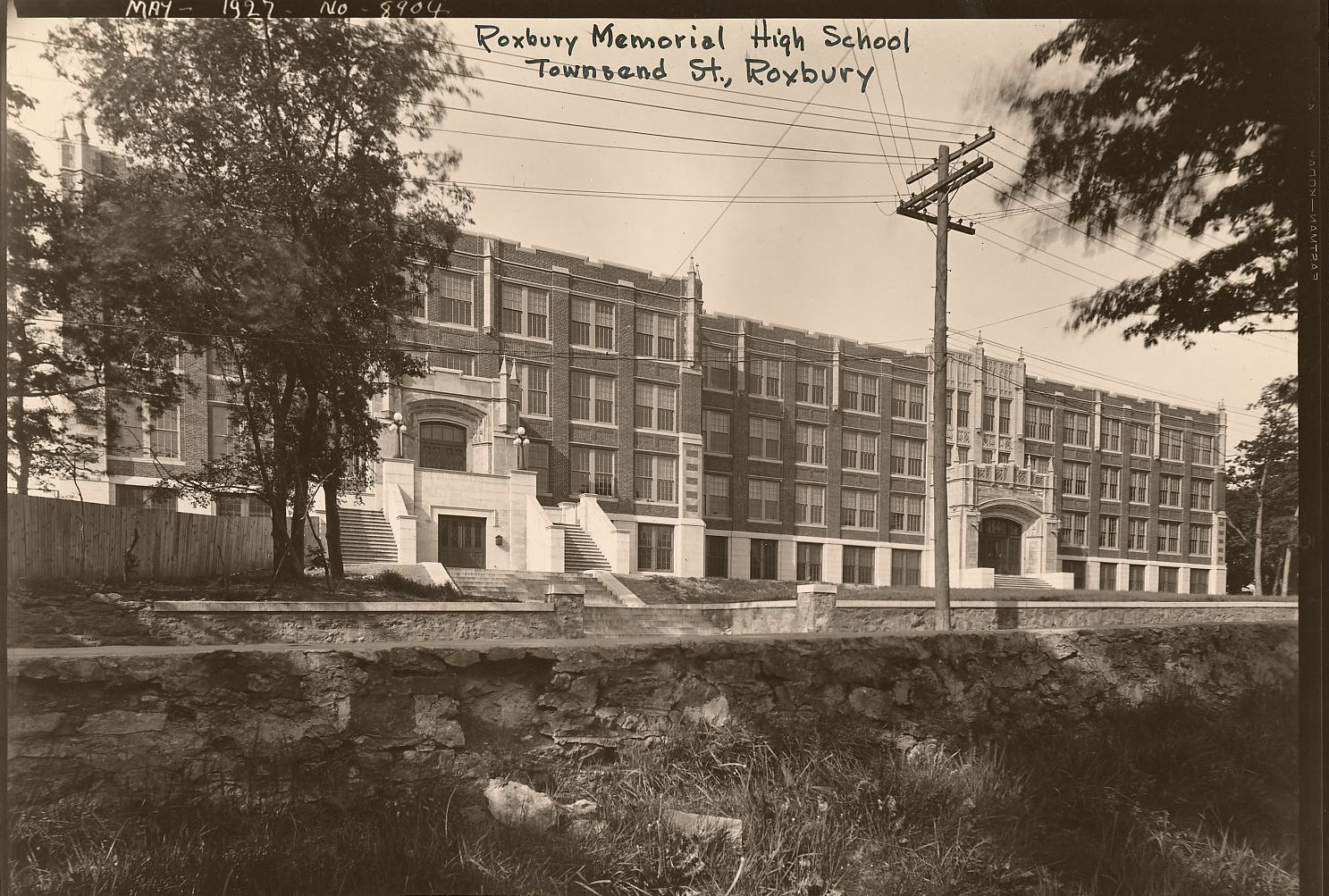 Roxbury Memorial High School: Exterior